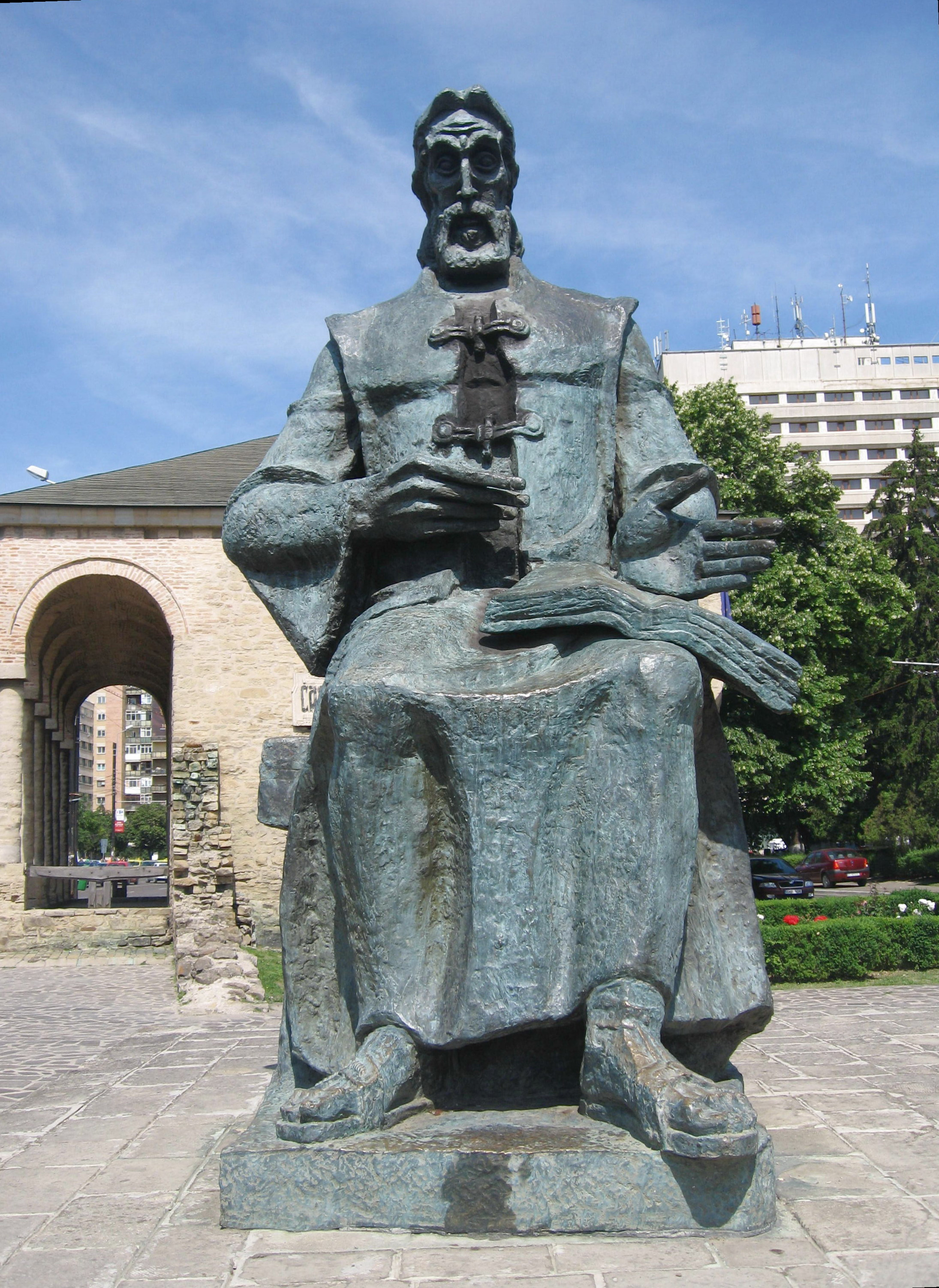 Iasi , Statue of Dosoftei , Iaşi , Romania